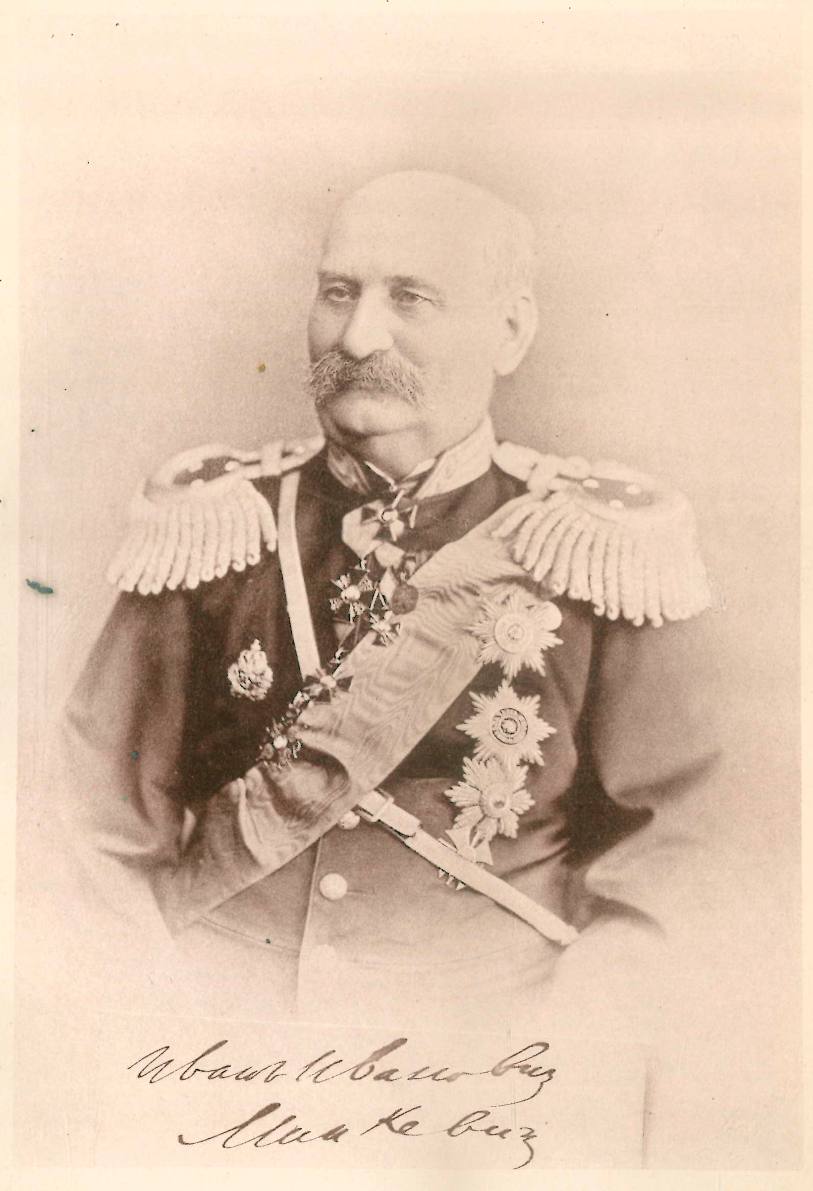 Jan Minkiewicz (1826-1897), Polish-Russian physician, surgeon